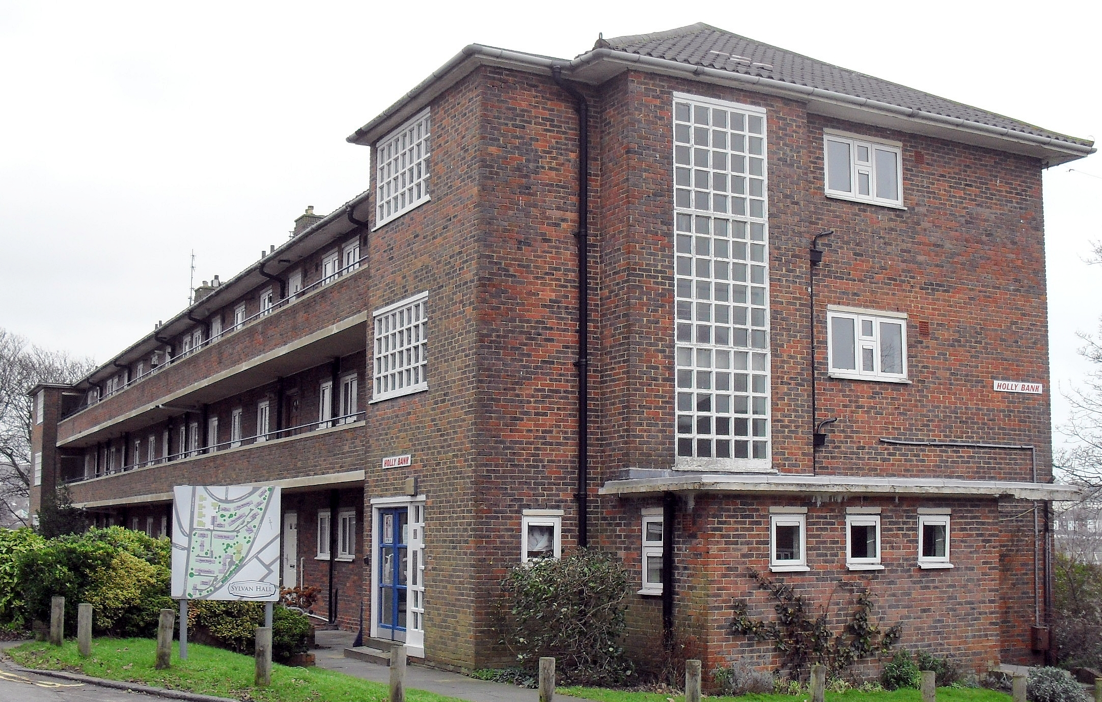 Holly Bank, a block of flats on the Sylvan Hall estate in Round Hill, part of the City of Brighton and Hove, England. These were built as high-quality council flats in the 1850s on the site of four large villas, whose gardens were preserved.